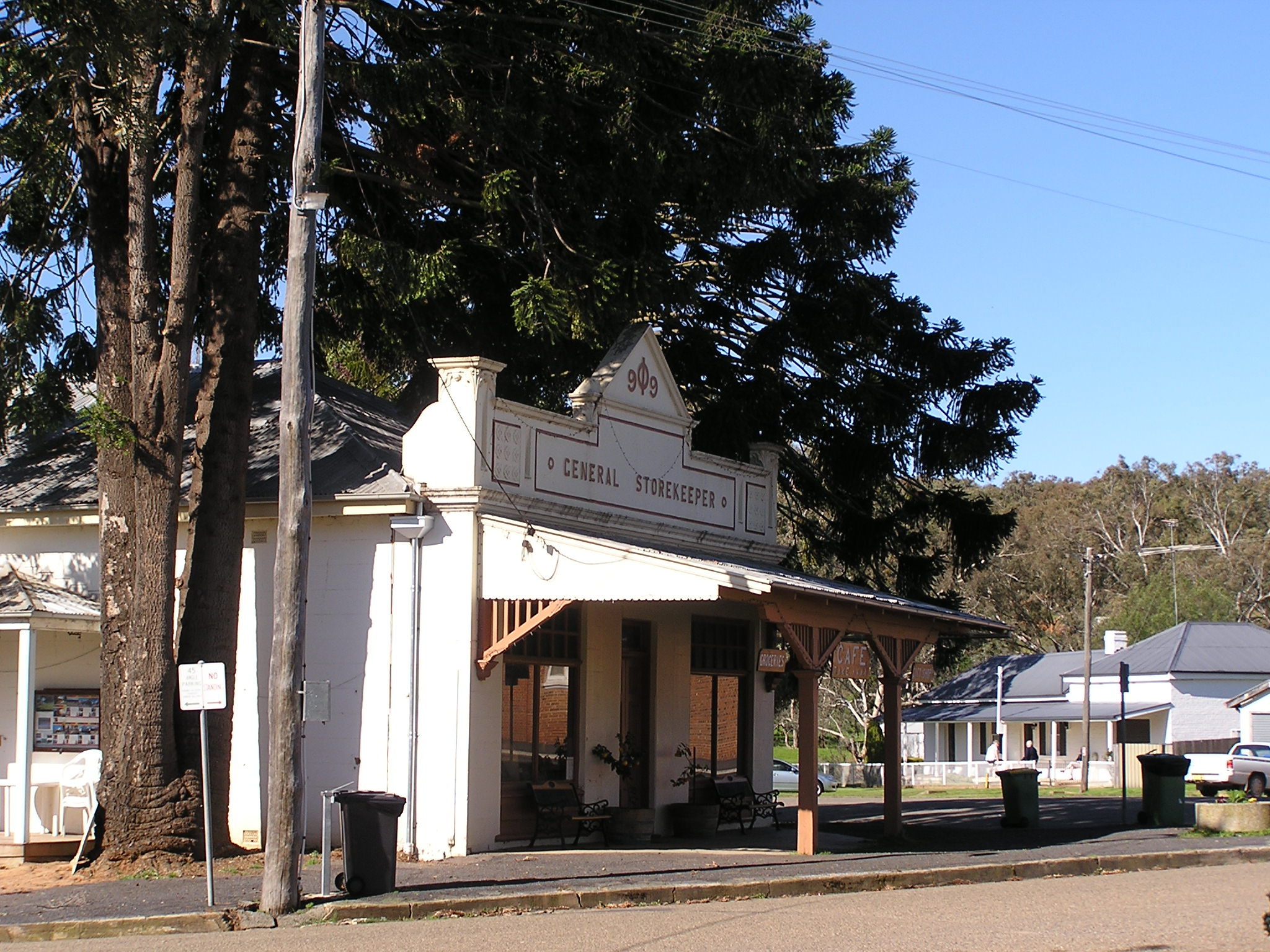 The general store at Binalong, New South Wales, Australia.